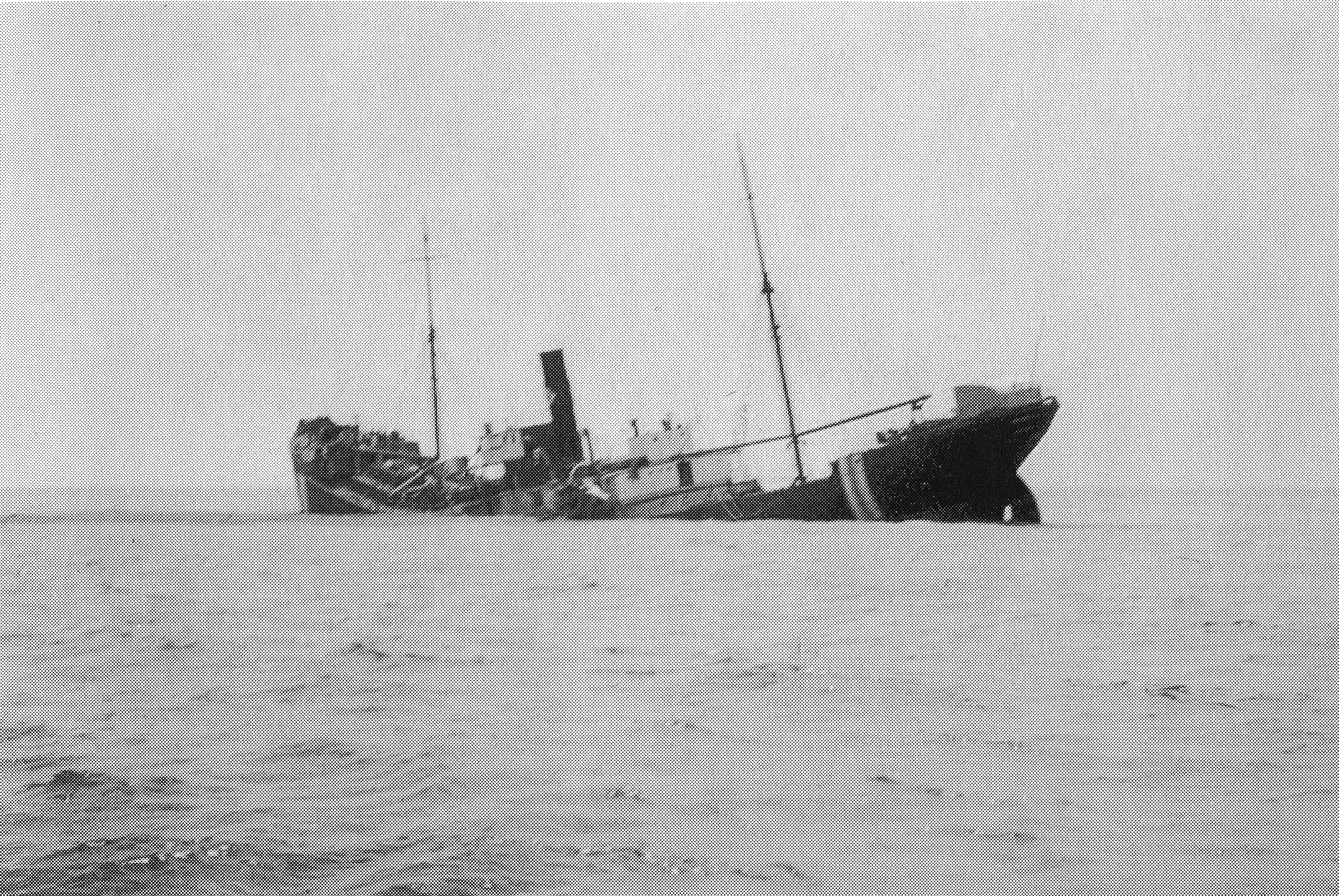 The Finnish s/s Margareta, formerly Barbro, sinking in the Biscaya bay on June 9, 1940.